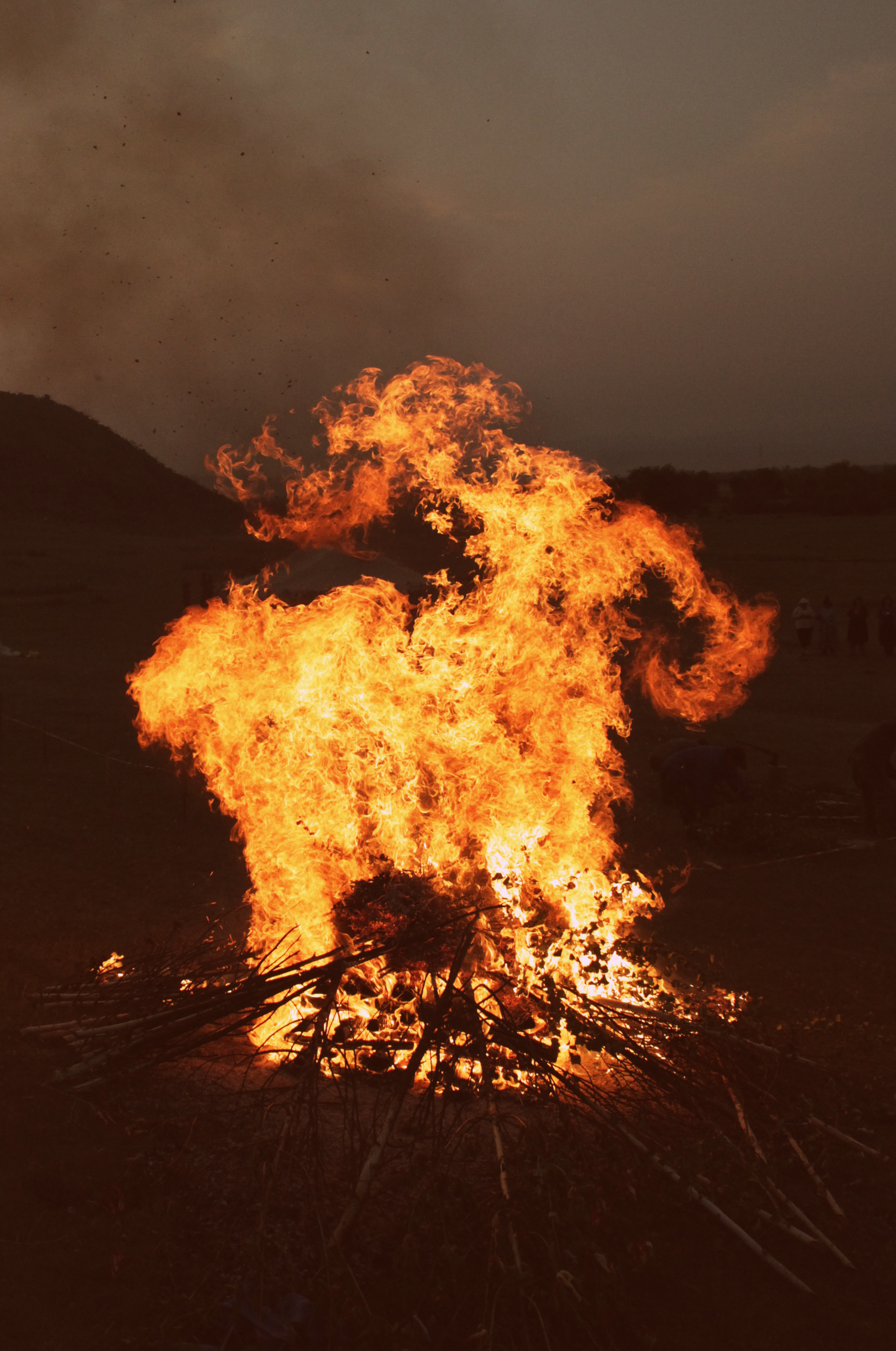 The fire displayed the image of a horned sheep during the Buryat shamans' consecration ritual (Shanar-shandruu)